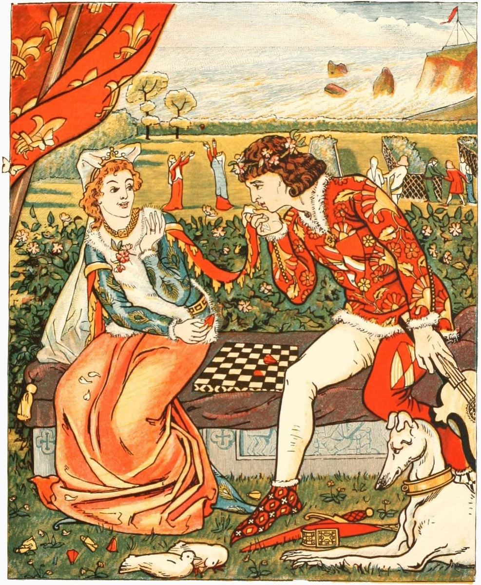 Illustration from Mary Eliza Haweis' Chaucer for Children (1882).